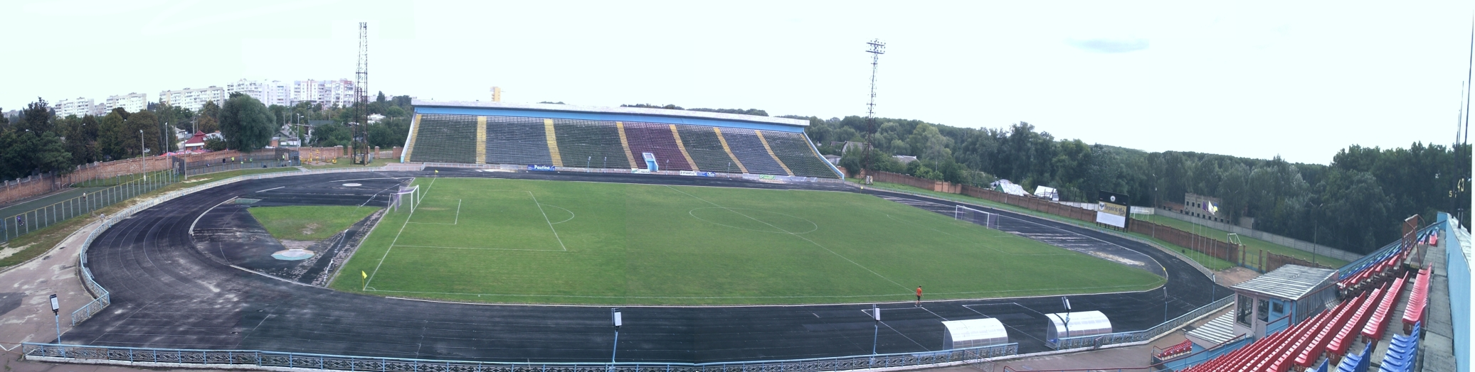 Yuriy Gagarin Stadium in Chernihiv.